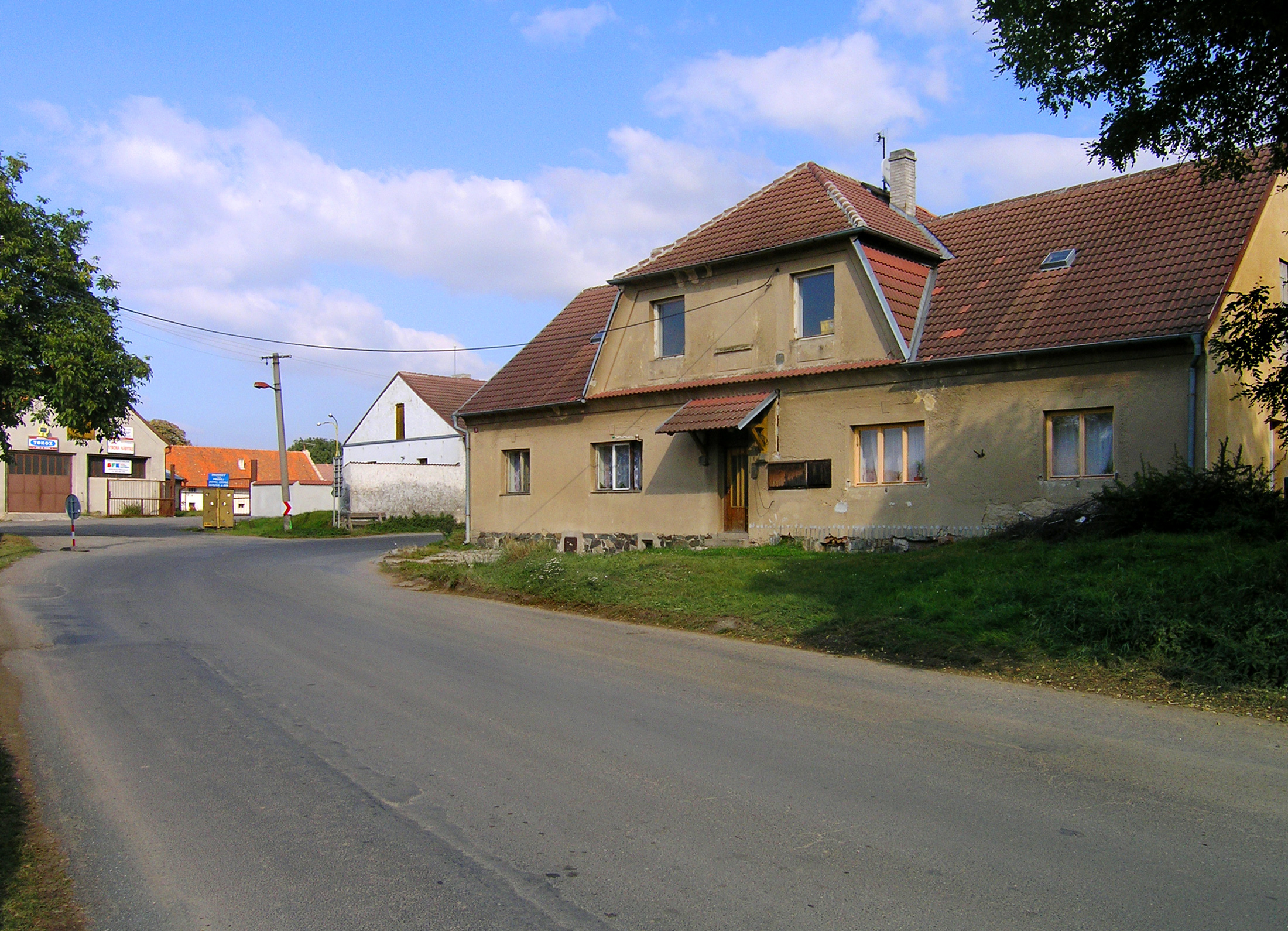 Road to Škvorec in Sluštice, Czech Republic